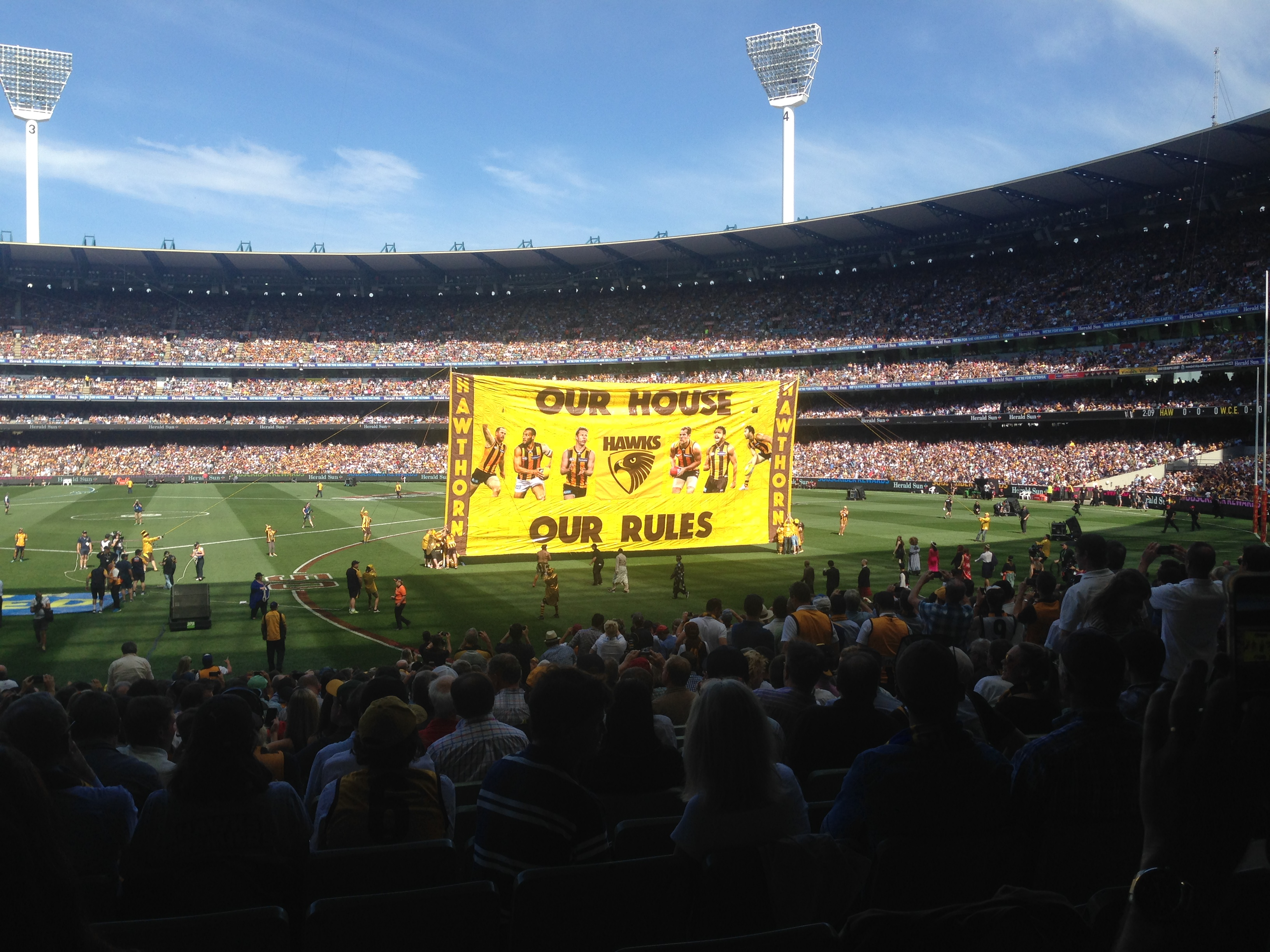 Hawthorn Football Club's banner for the 2015 AFL Grand Final.